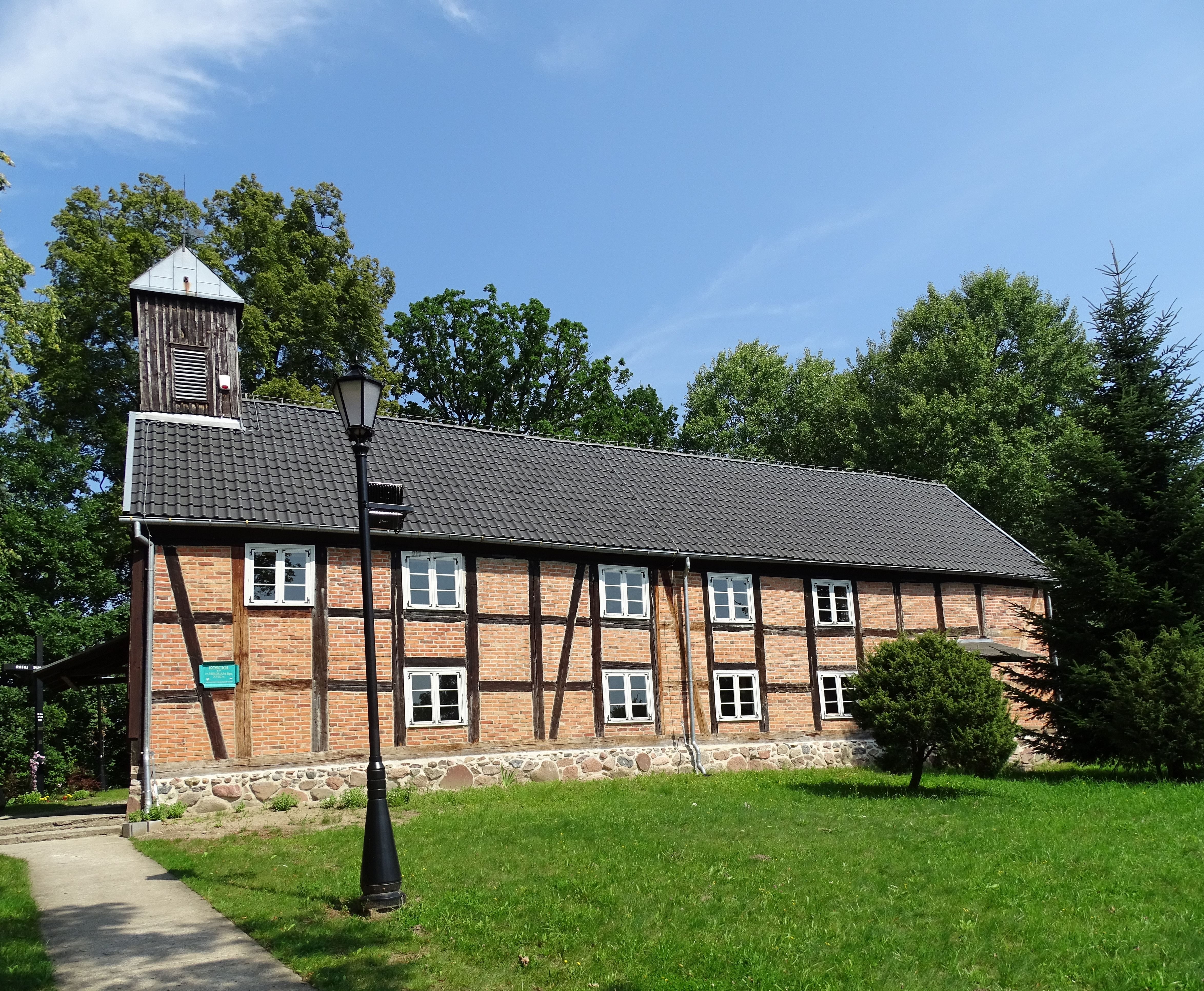 Czapielsk, Pomerania, Poland. Church of Saint Nicolas from the 18th century.